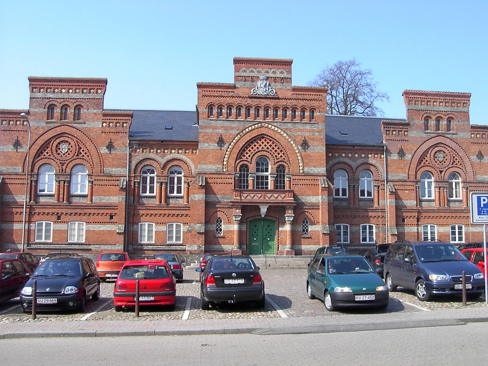 The old courthouse in the city Fredericia in Denmark.